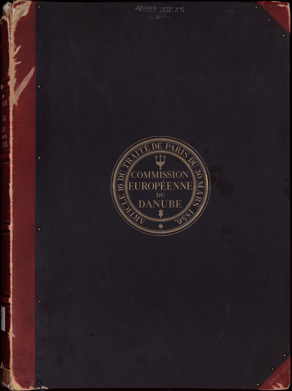 The European Commission of the Danube was an early experiment in international organization. It was established in 1856, after the Crimean War, by agreement among Britain, Austria, France, Prussia, Russia, Sardinia, and Turkey. The Danube River rises in the Black Forest of Germany and travels some 3,000 kilometers before reaching the Black Sea. The commission was charged with overseeing projects to improve navigation on the river, one of which was the construction, in 1880-1902, of the Sulina Canal. The headquarters of the commission was established at Galatz (Galaţi), Romania, at that time part of the Ottoman Empire. Charles Hartley of Great Britain was appointed chief engineer. Hartley made the early drafts of these maps in connection with the construction of the canal which, when completed, shortened the route to the sea via the Sulina arm of the Danube delta, the river’s main navigation channel. Danube River Delta (Romania and Ukraine); Rivers